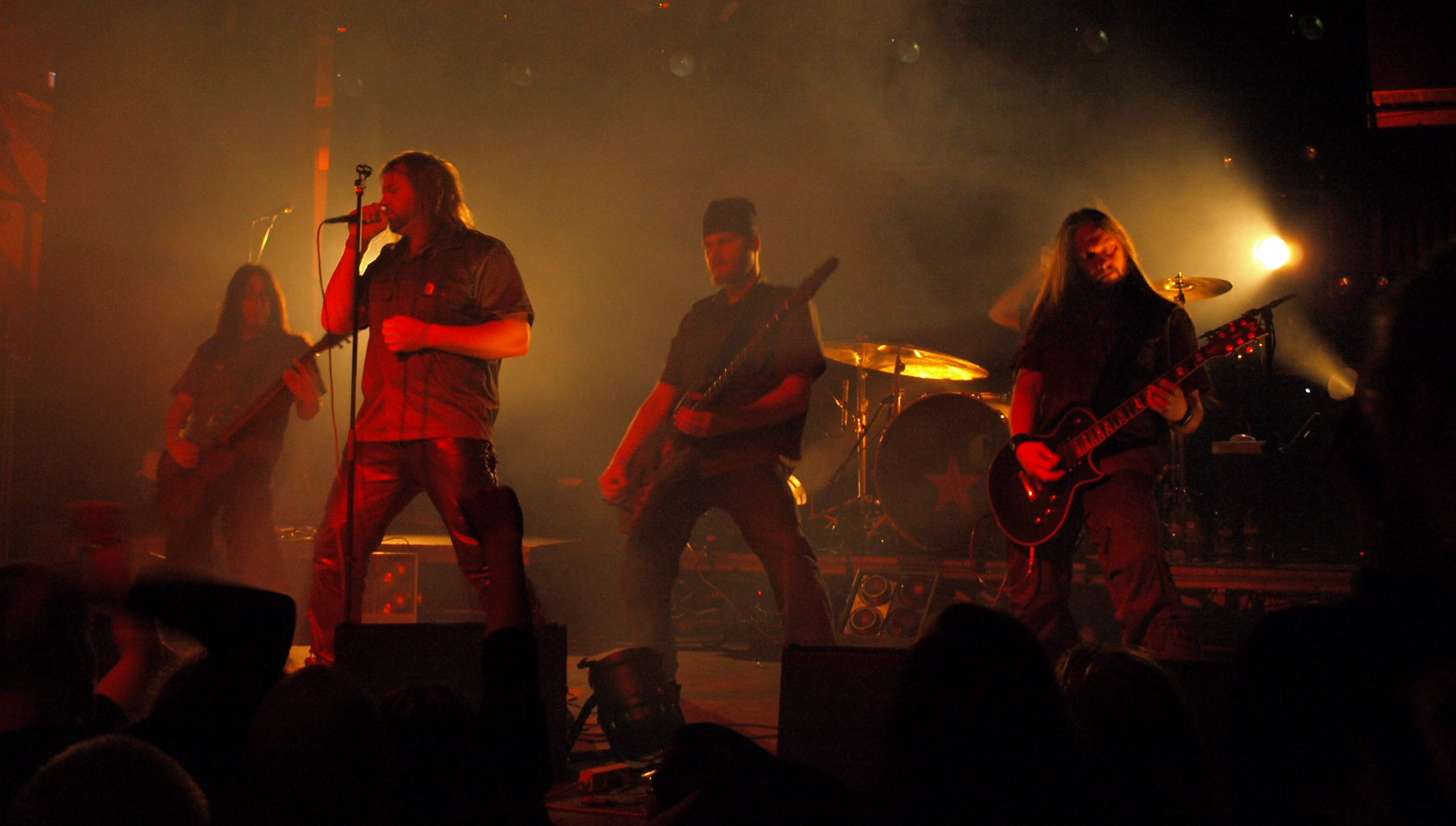 Finnish doom metal band KYPCK live at Nosturi, Helsinki